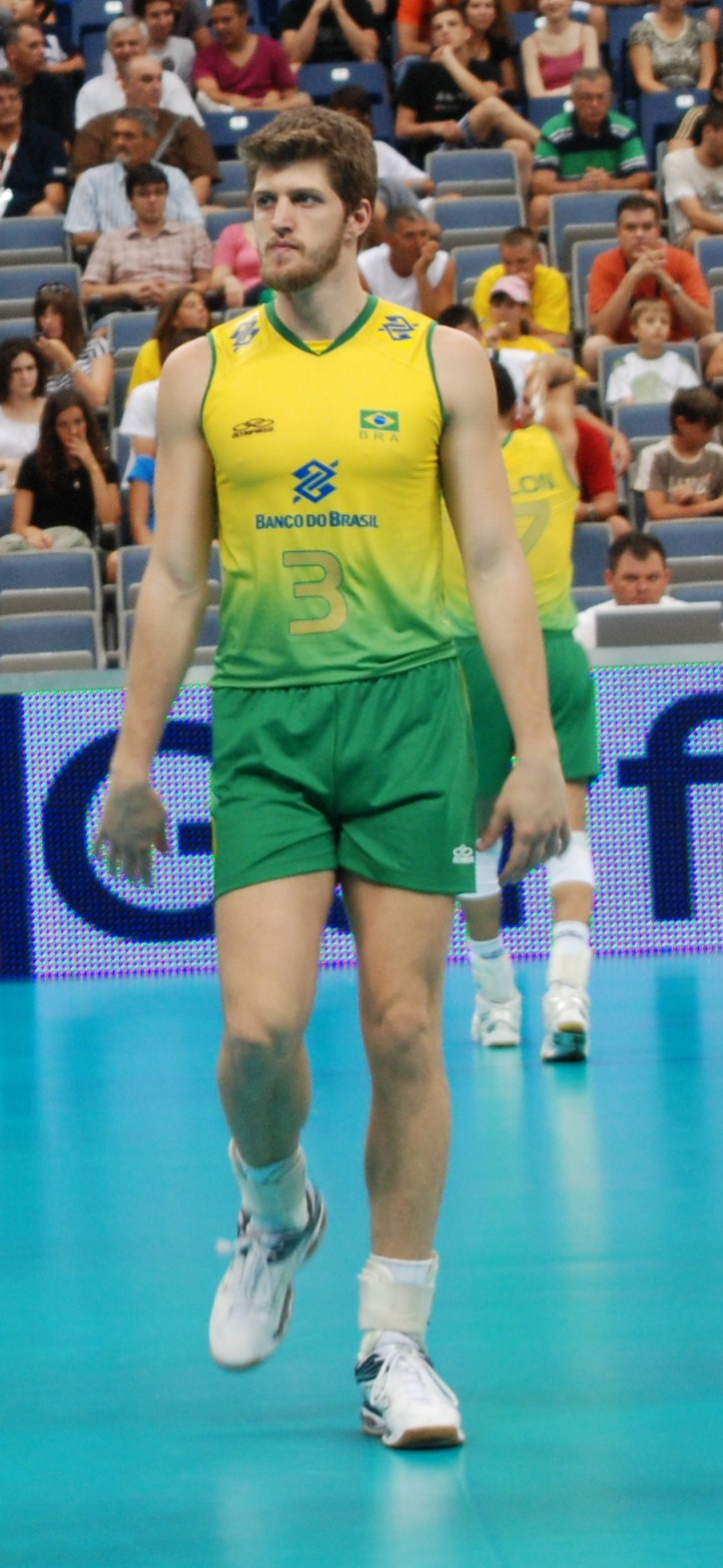 Brazilian volleyball player Eder Carbonera